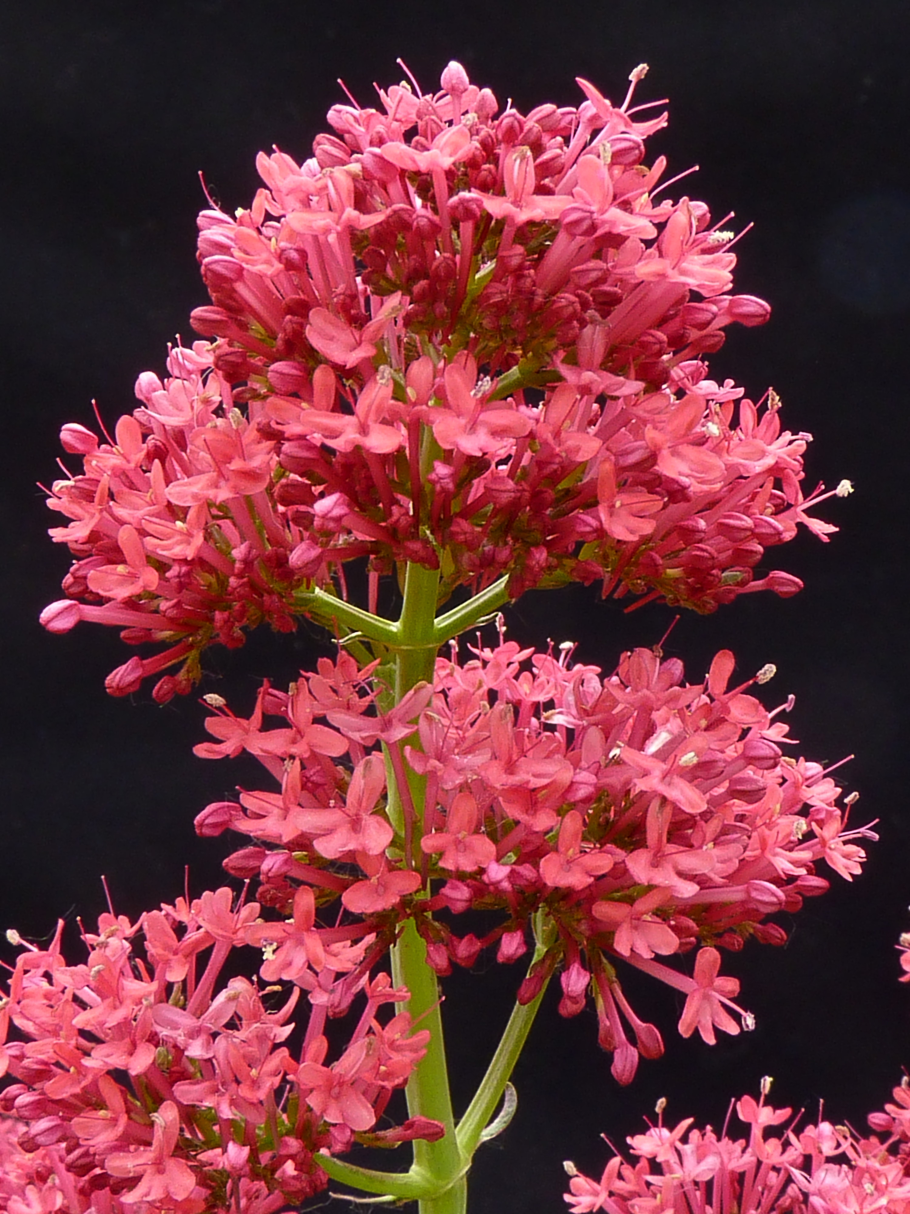 Centranthus ruber, in a garden in Belgium.